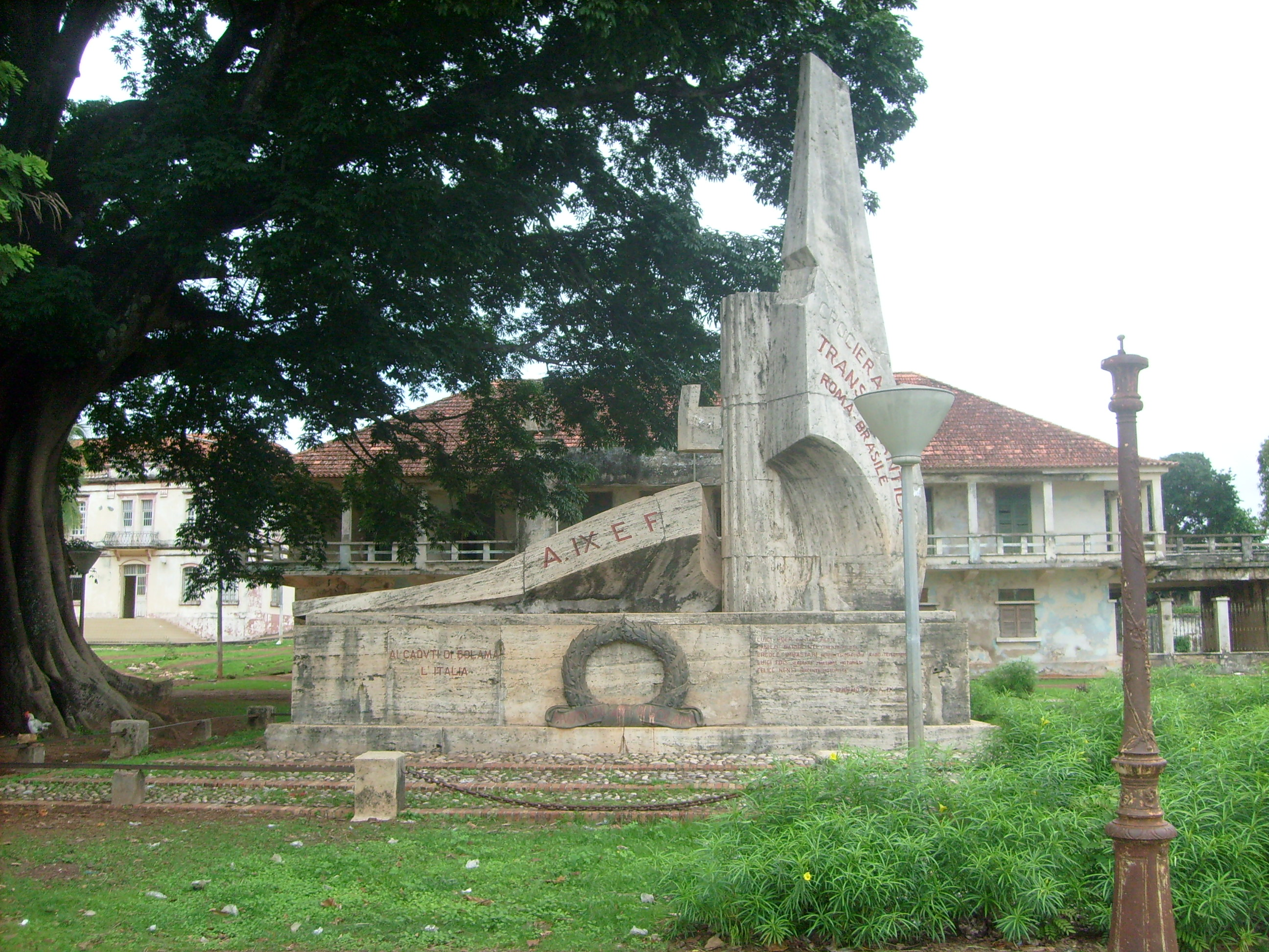 Bolama, Guinea-Bissau, Italian monument for failed attempt to cross the Atlantic ocean from Rome to Brasil